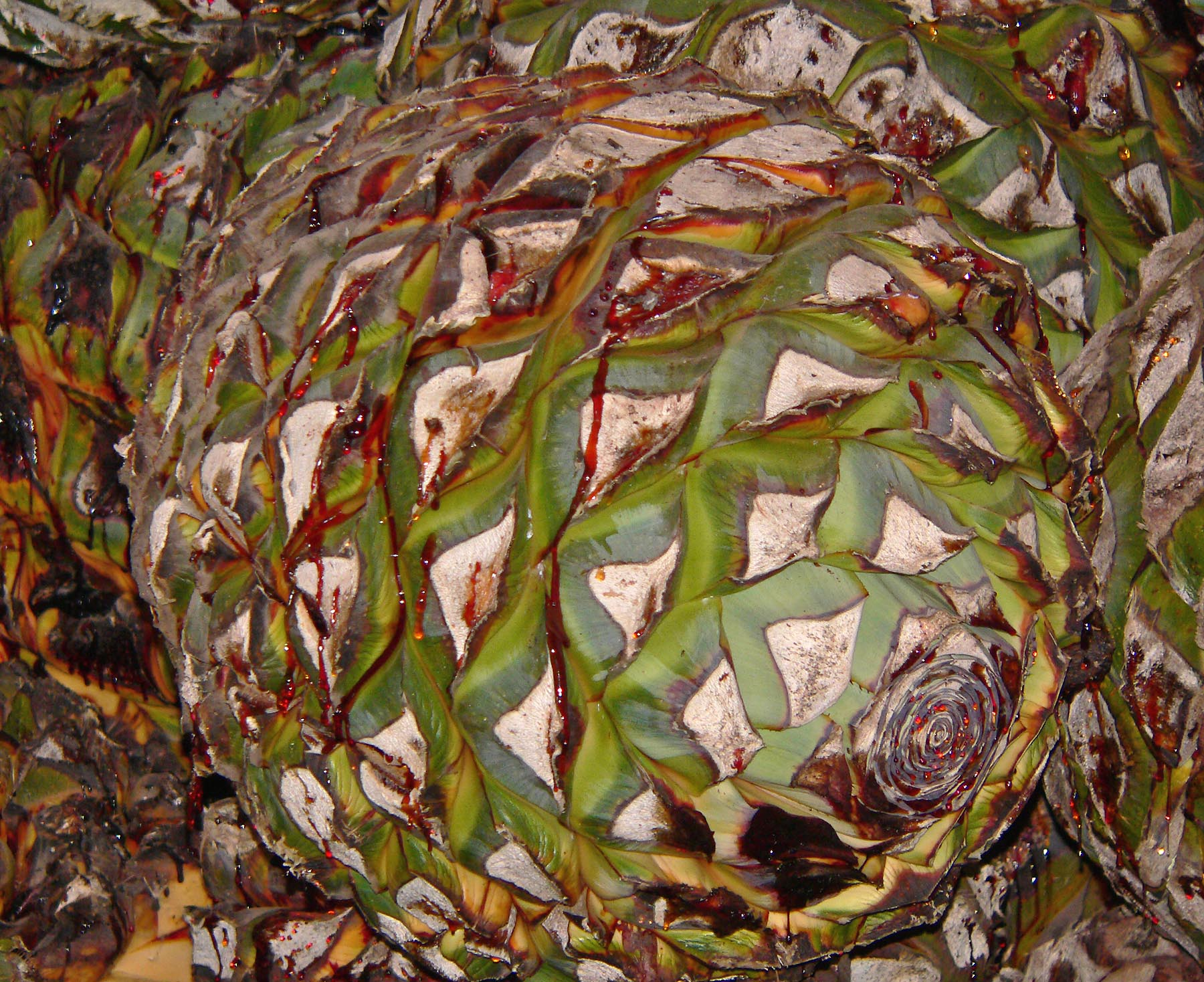 Photo of Agave tequilana core at Dona Engracia hacienda, Jalisco, Mexico